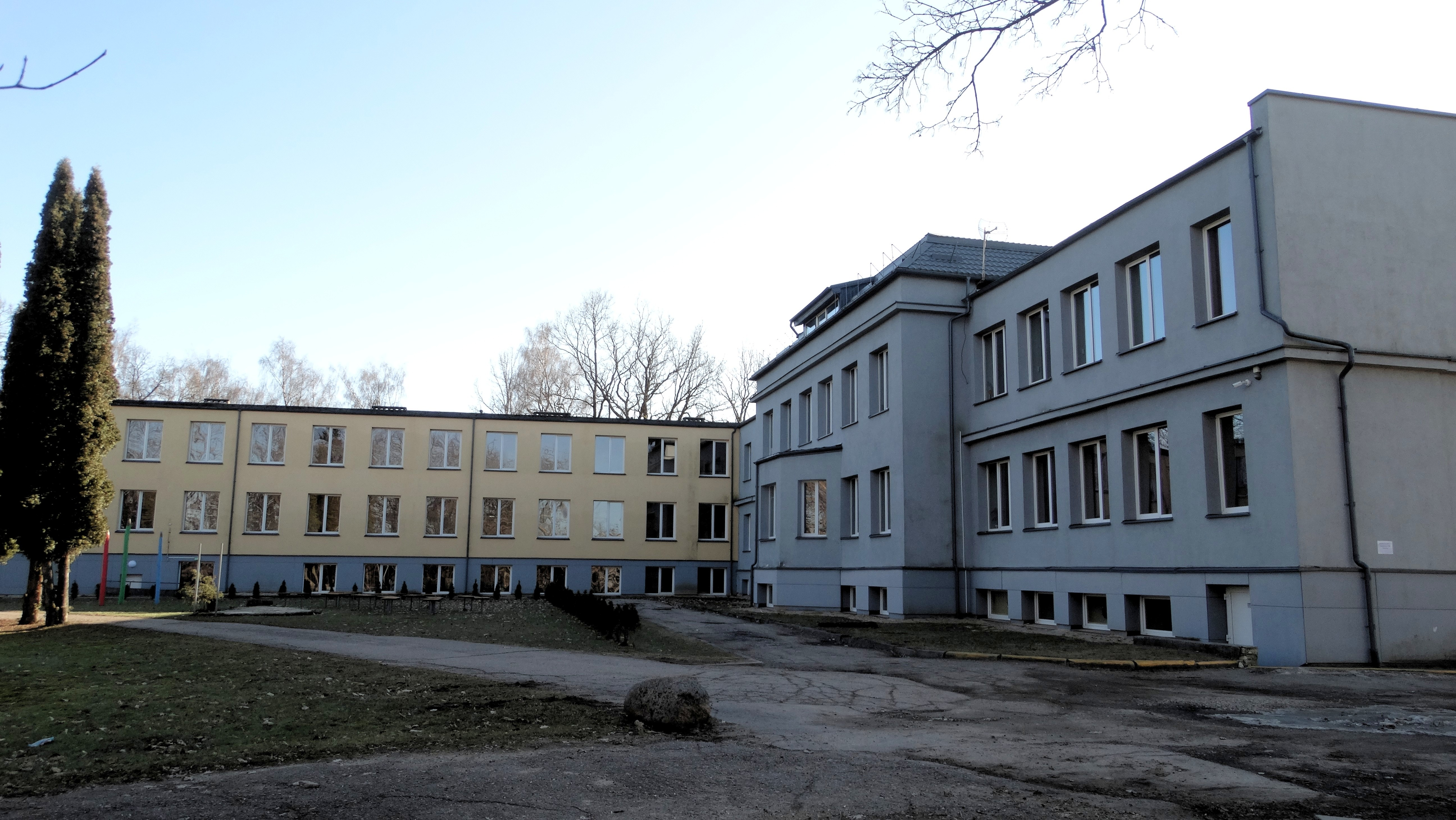 Gymnasium Saulė, Plungė, Lithuania